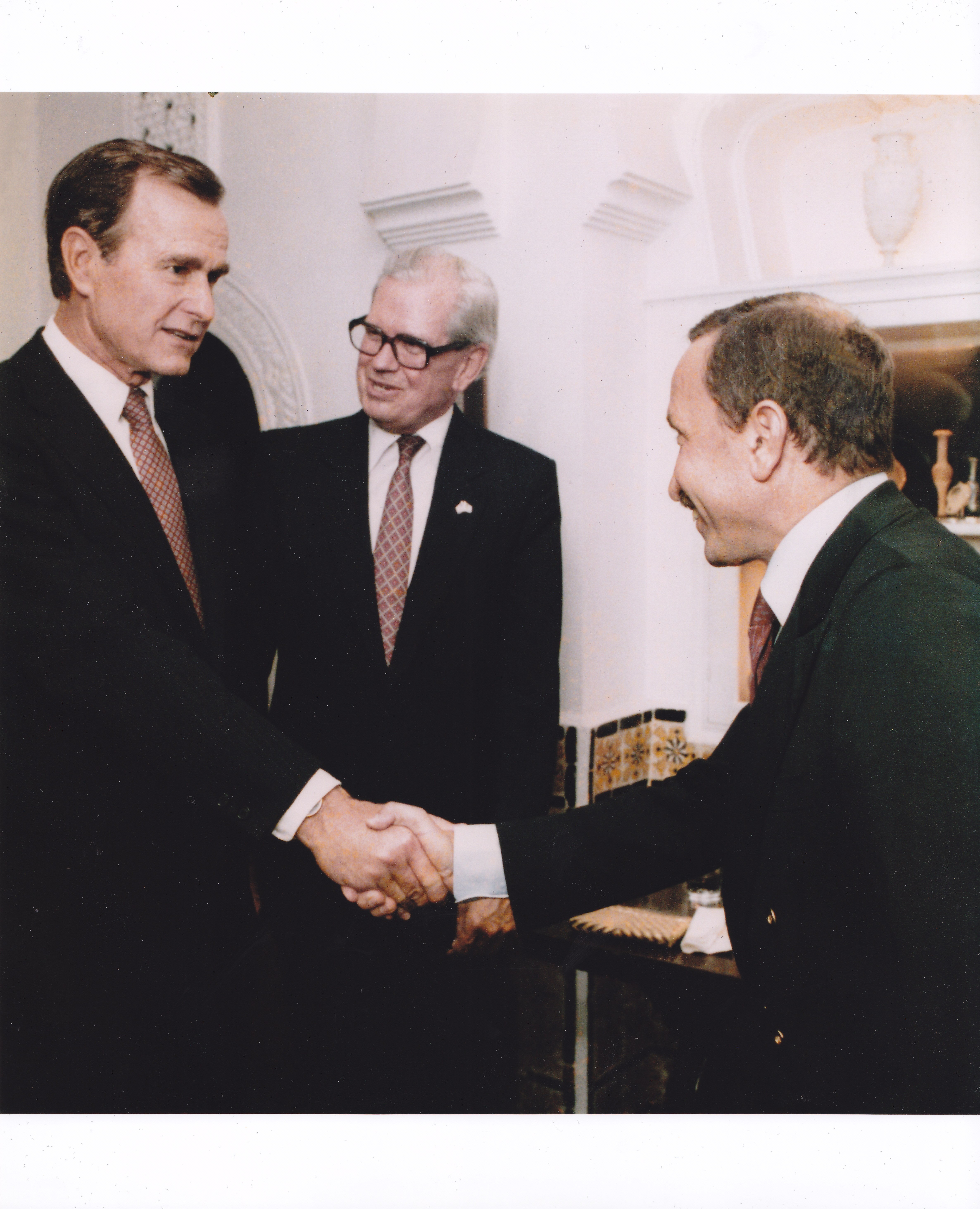 Photo taken during a public ceremony at the US Ambassy in Algiers in 1983